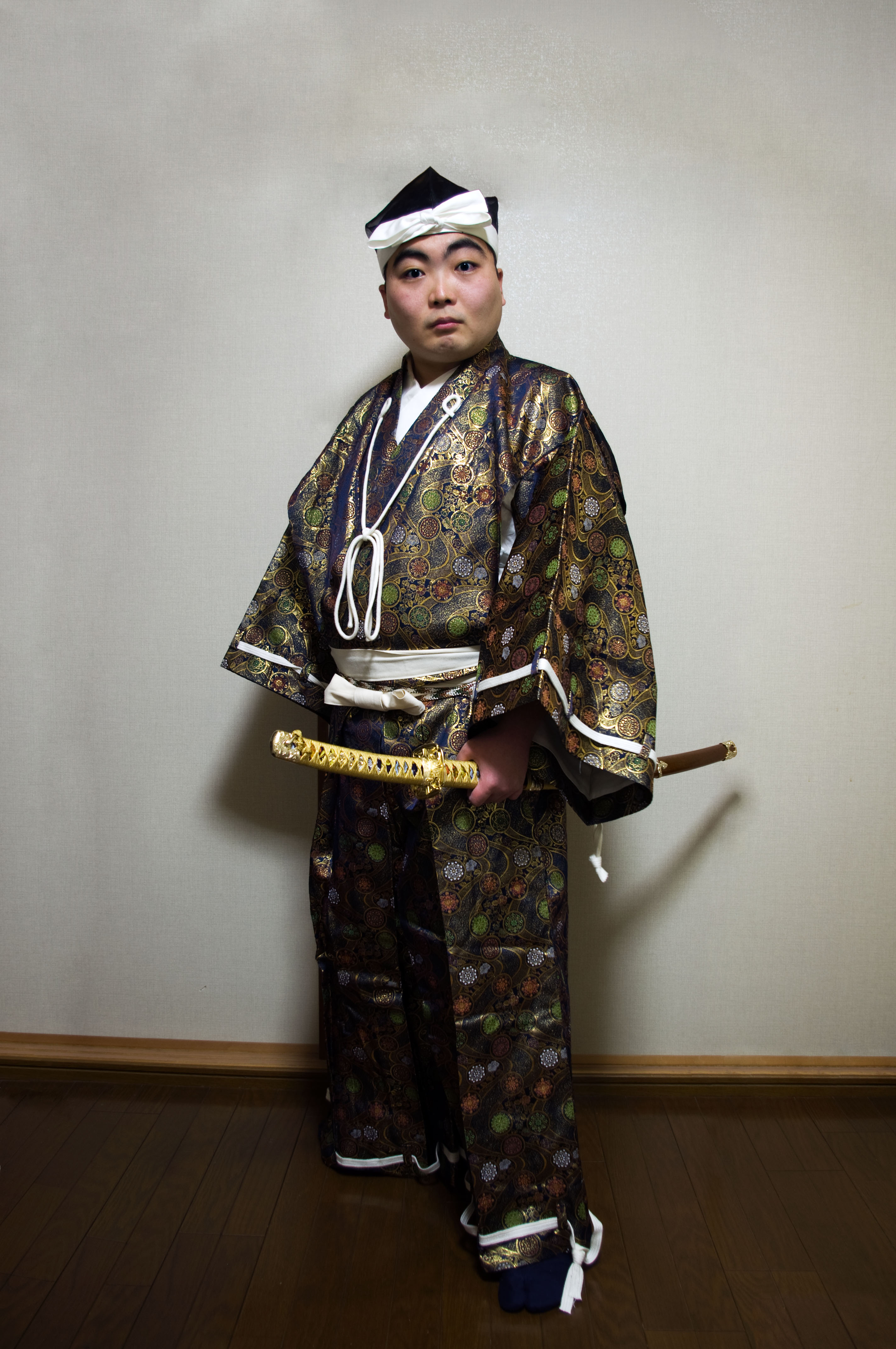 A Samurai in Yoroi-Hitatare.